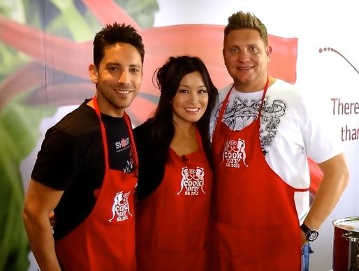 Singer Danny K, TV/Radio Presenter Jen Su, and singer Kurt Darren battle it out in the kitchen for the Kia SA 2012 Cook-off challenge at the Pick n Pay Good food studio in Johannesburg, South Africa.